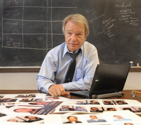 picture of Gary L. Wells